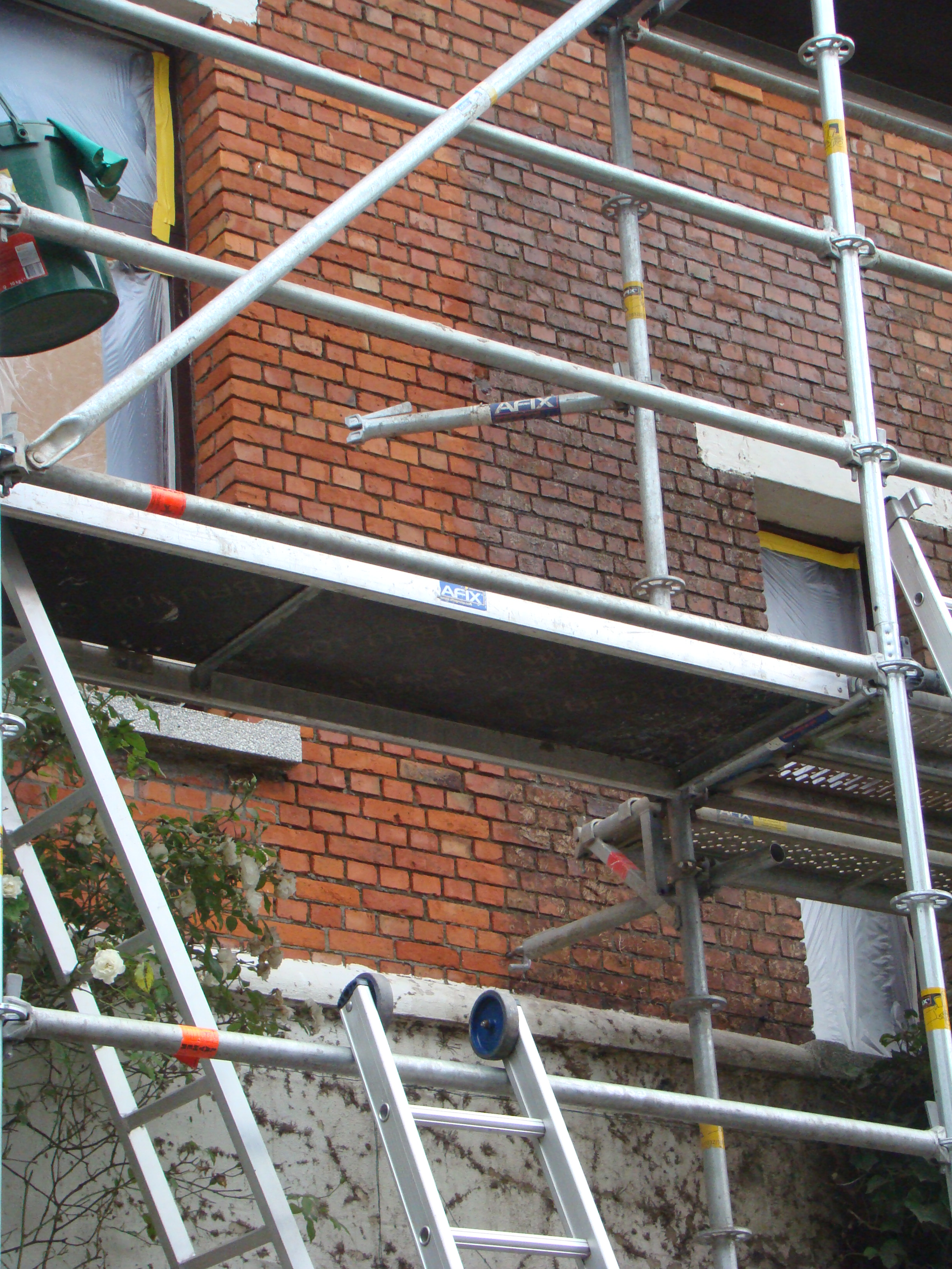 Example of chemical cleaning